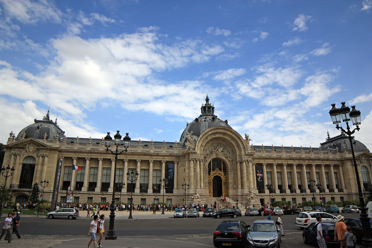 Petit Palais facade